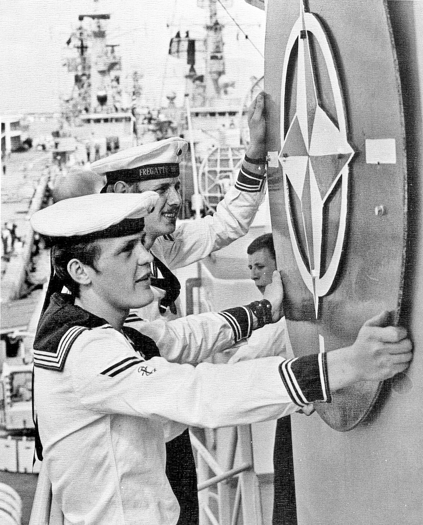 German sailors mounting the NATO emblem on the frigate Braunschweig (F225), in 1972. Braunschweig was assigned to the NATO Standing Naval Force Atlantic (STANAVFORLANT).